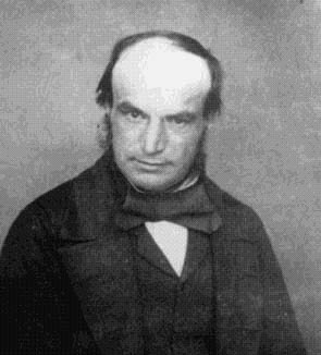 John Couch Adams (1819-1892)